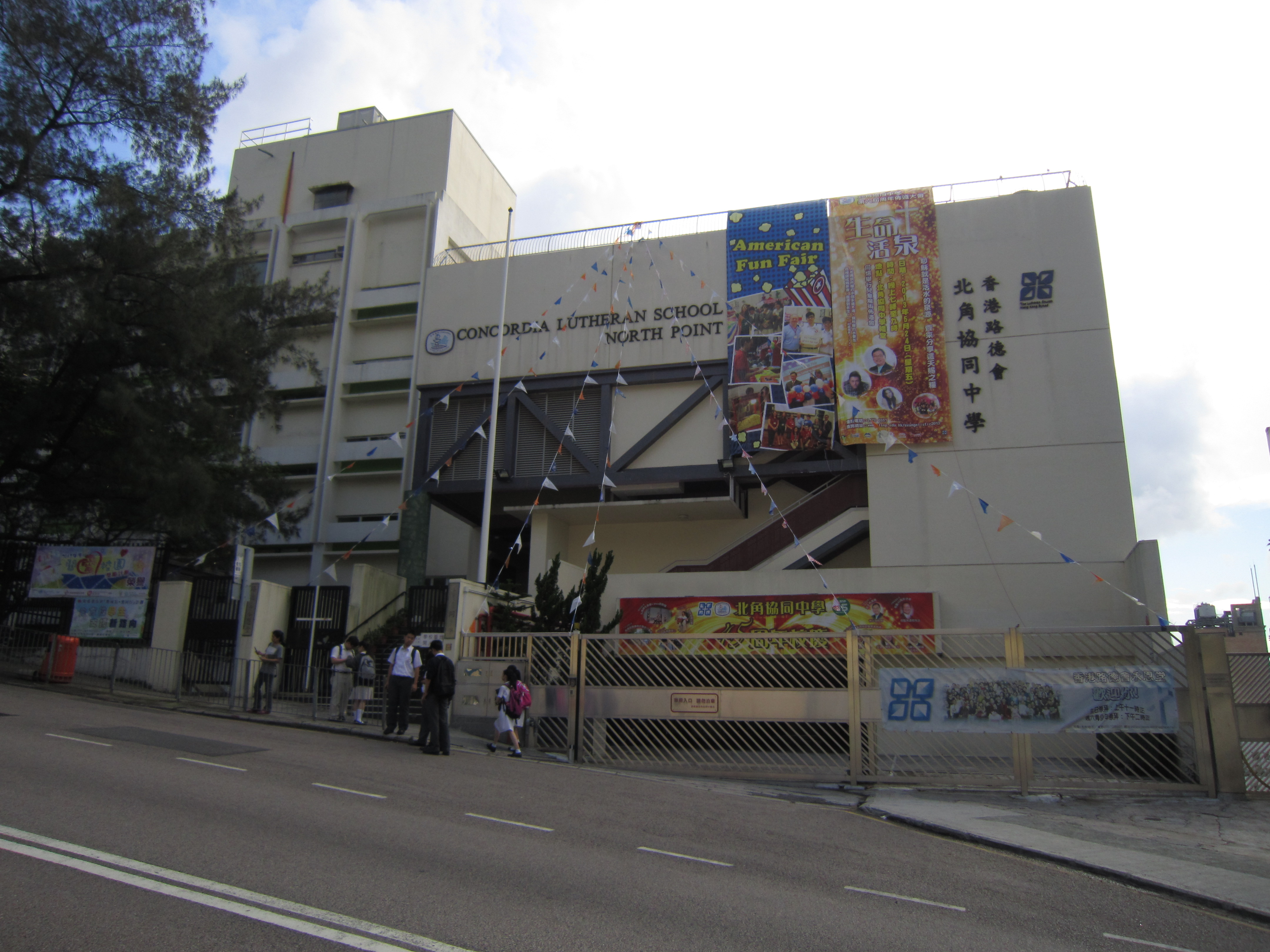 CLS North Point entrance